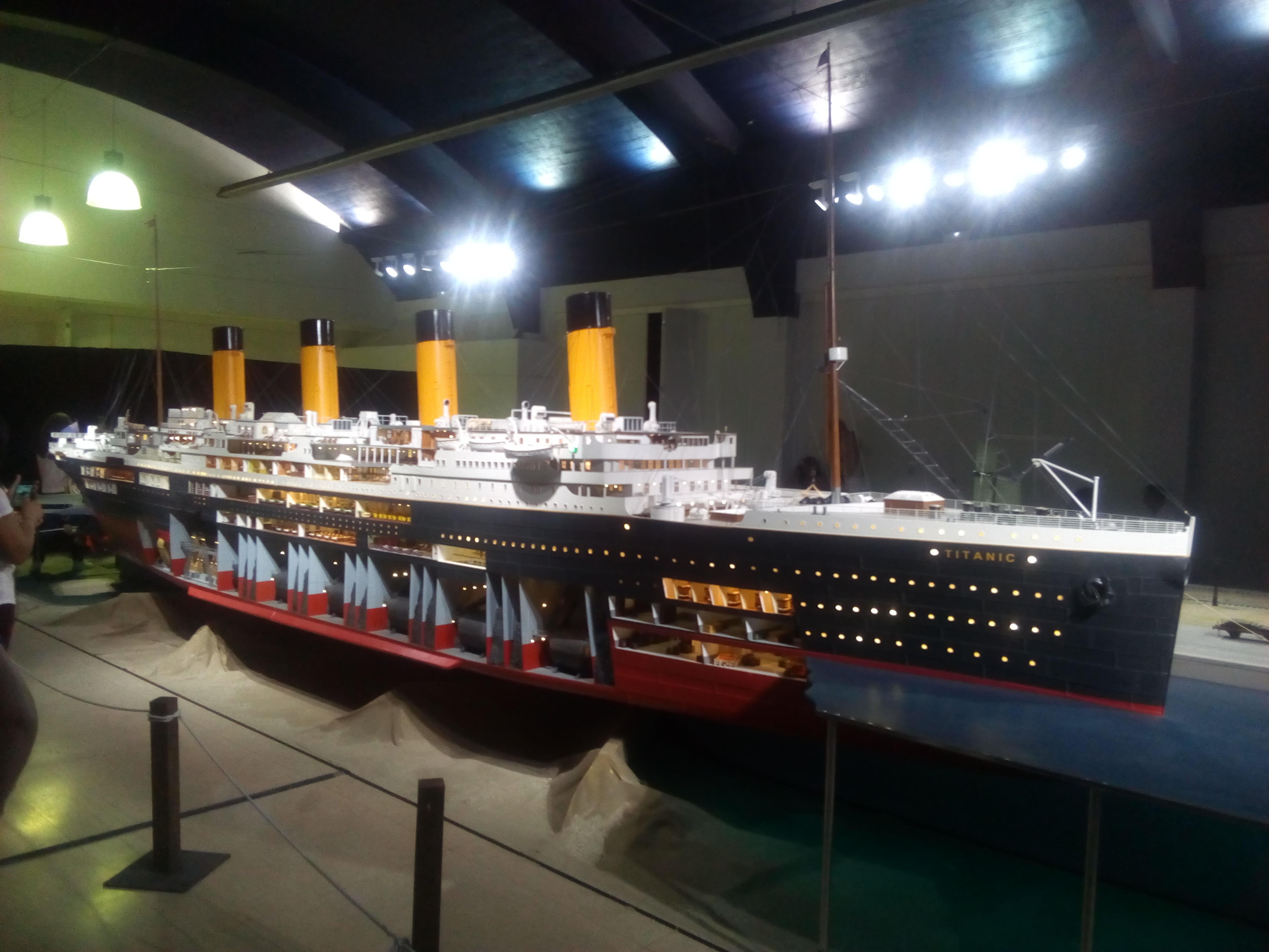 maqueta enorme del Titanic.